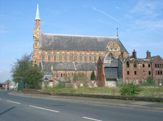 The Old Gorton Monastery on Gorton Lane. In the 1970s, Ernest Trevor Spashett RIBA was asked by Father Anselm to redesign the buildings above and adjoining the cloister to improve accommodation for the Franciscan monks living there. Spashett also designed a reflective gold glass cross above the entrance beside the cloister; the shape of the cross relates to the history of the Franciscan order. In certain light situations the cross would reflect its shape on the adjoining roadway. The above image shows the cross after the fire and before its demolition. Spashett designed the iron gate to the cloister, and the lettering thereon (source: archives of the architect). All work by Spashett visible from the outside was destroyed by fire apart from the gate, but internally the redesign of the monks' cells can still be seen today. For more information see here